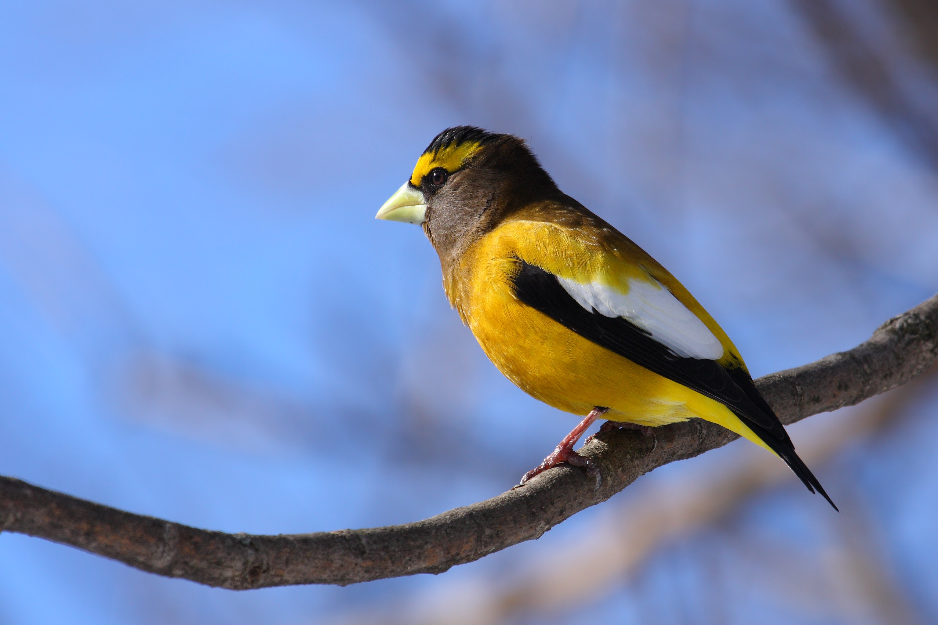 Evening Grosbeak (Hesperiphona vespertina), Cap Tourmente National Wildlife Area, Quebec, Canada.